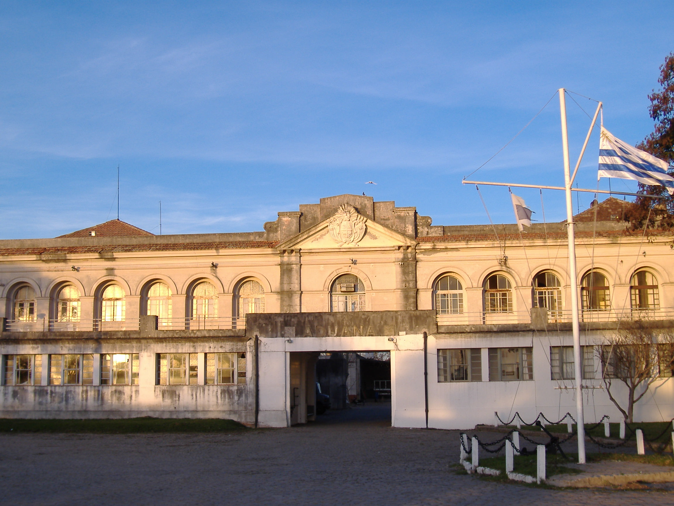 Old port facilities in Paysandú, Uruguay (customs office).